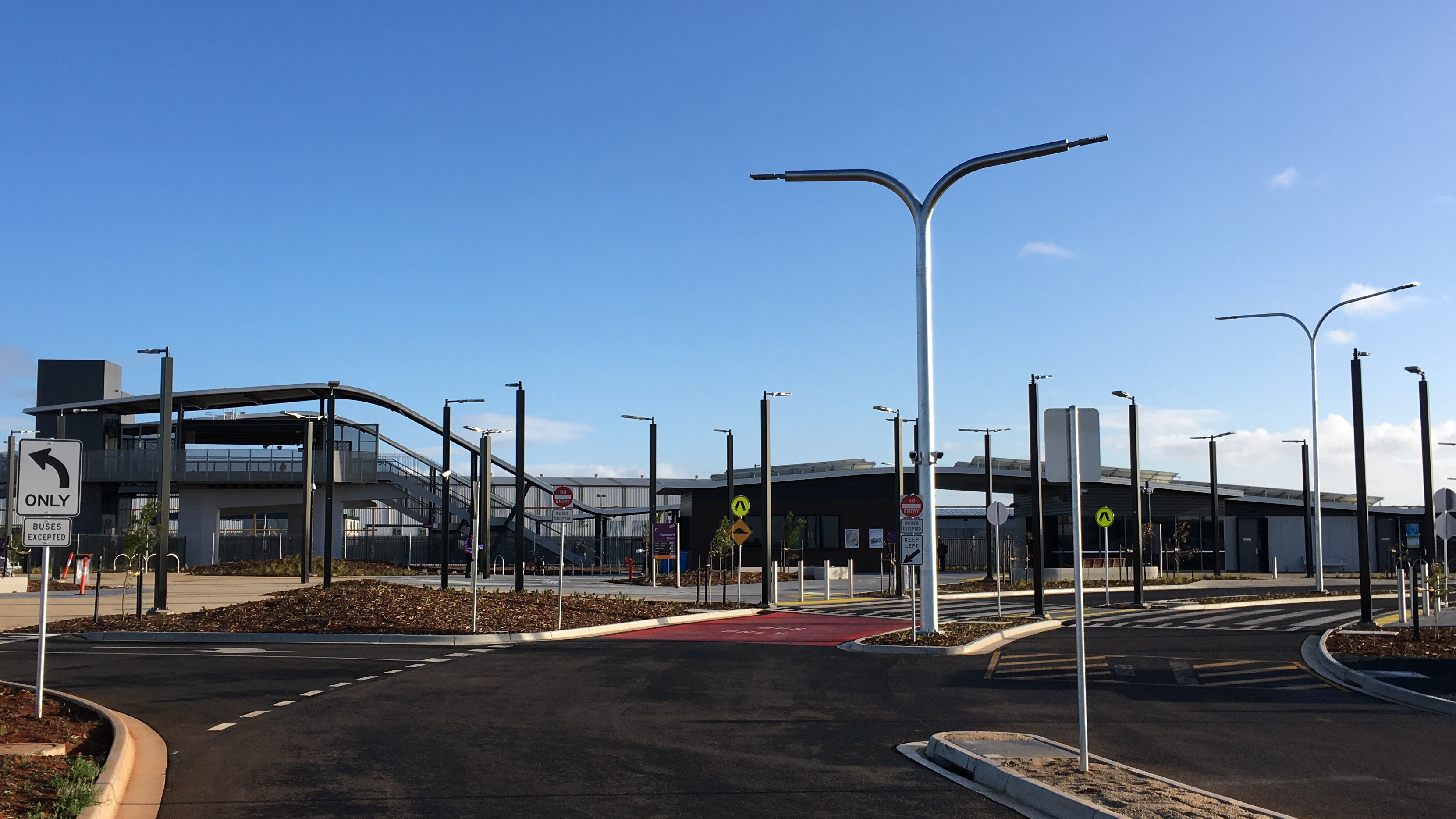 Cobblebank Station Viewed From Coach Road 2 Dec 2019